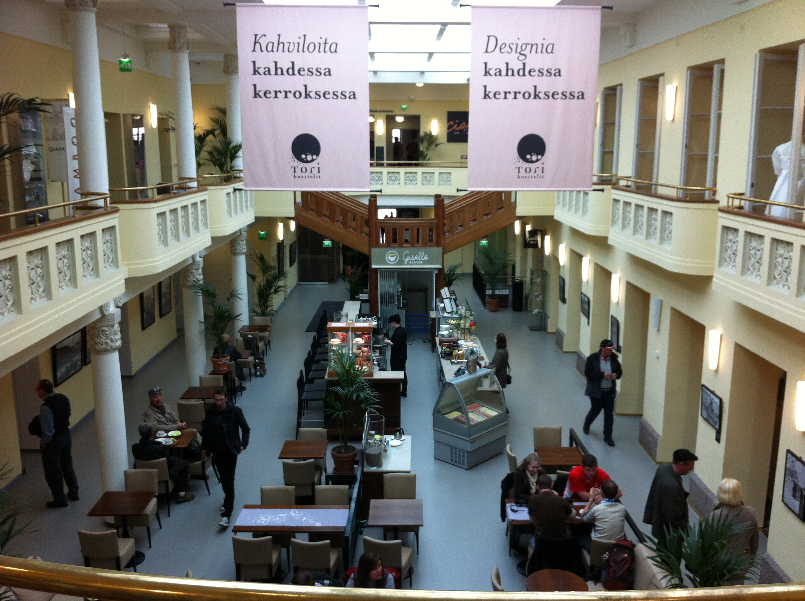 Kiseleff house interior